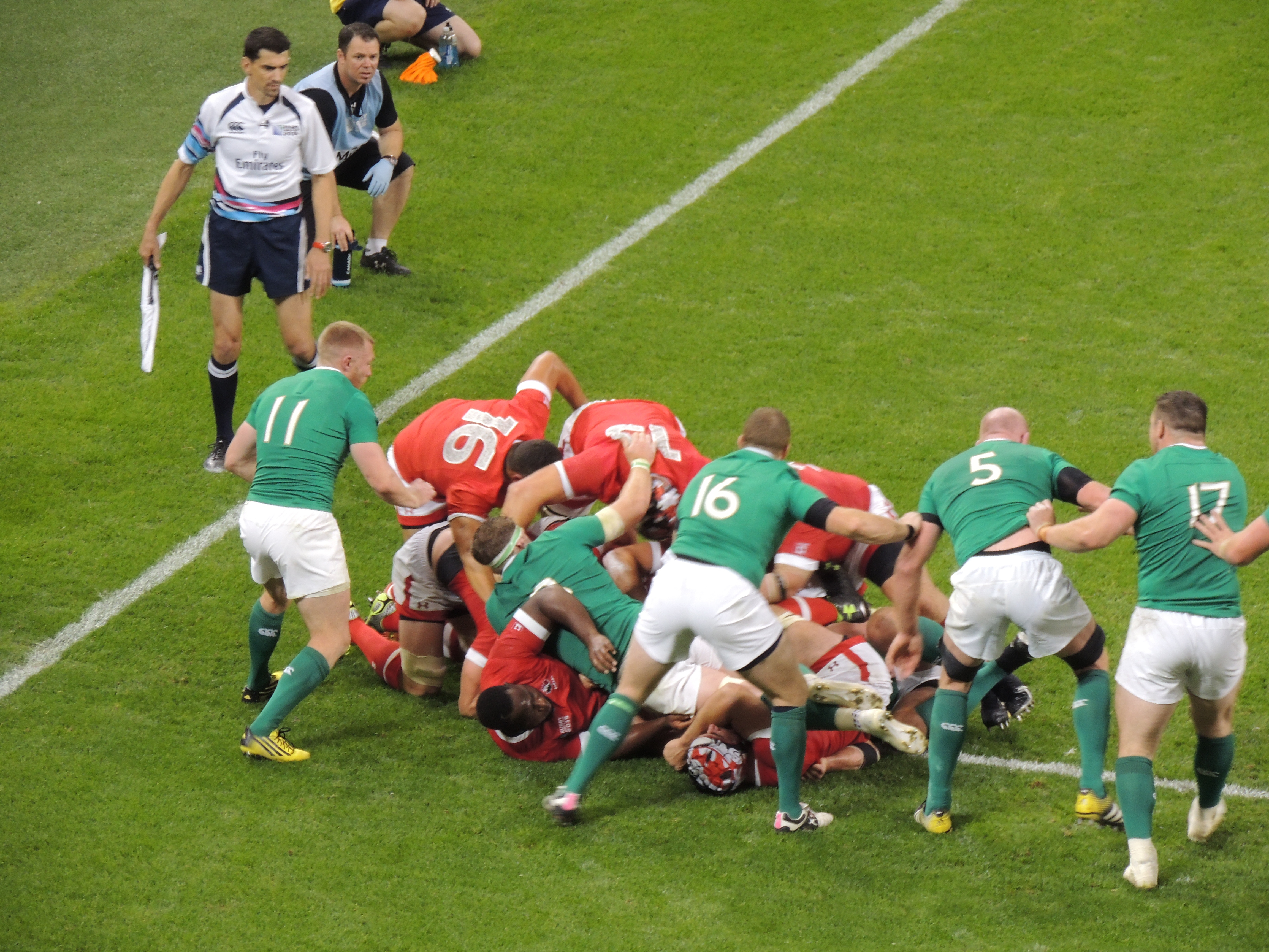 French rugby union referee Pascal Gaüzère in 2015 Rugby World Cup game Ireland vs Canada at Millennium Stadium in Cardiff.